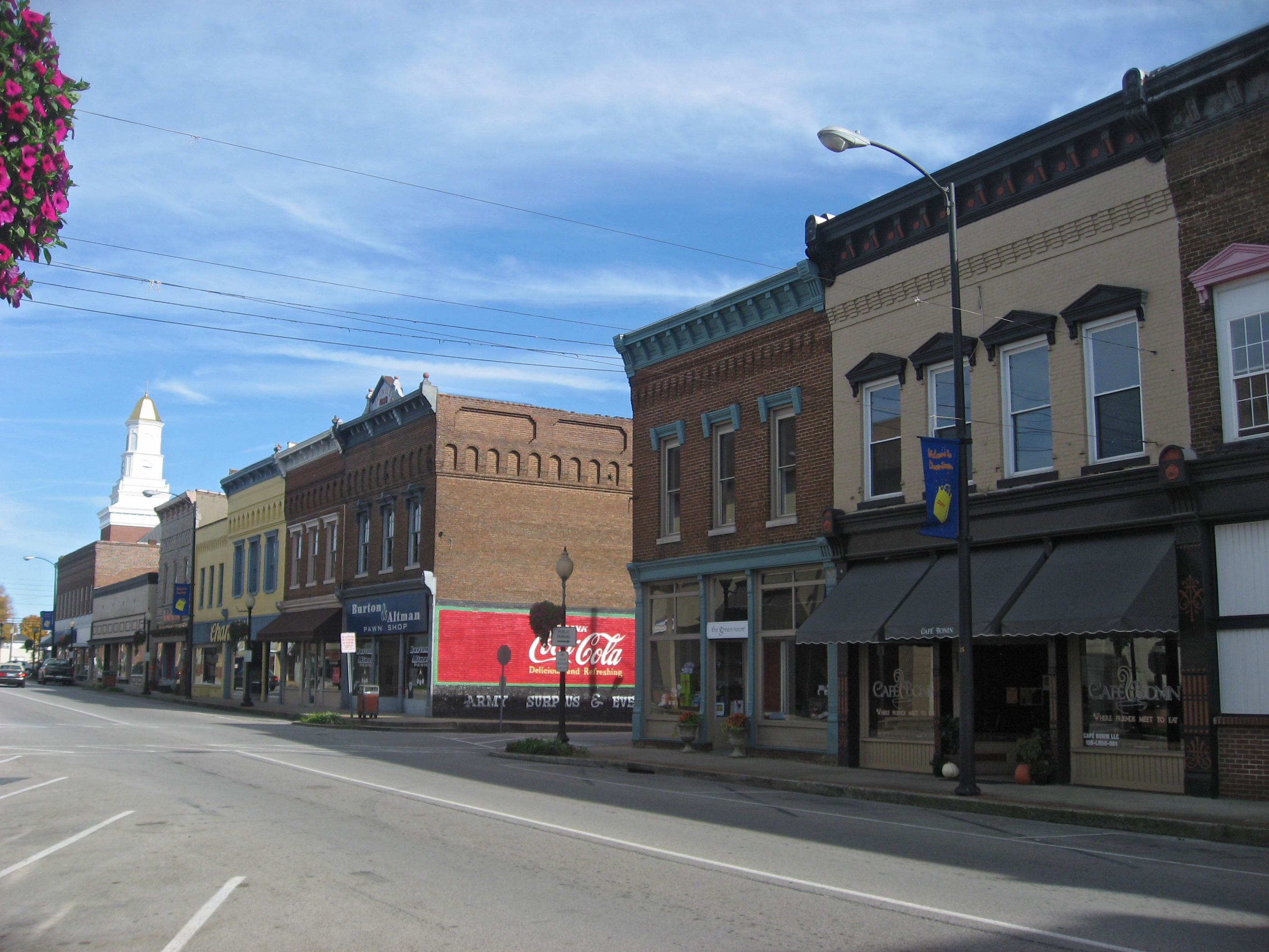 Downtown Campbellsville, Main Street, 100 Block